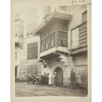 Bayt al-Razzaz, Cairo, late 19th century